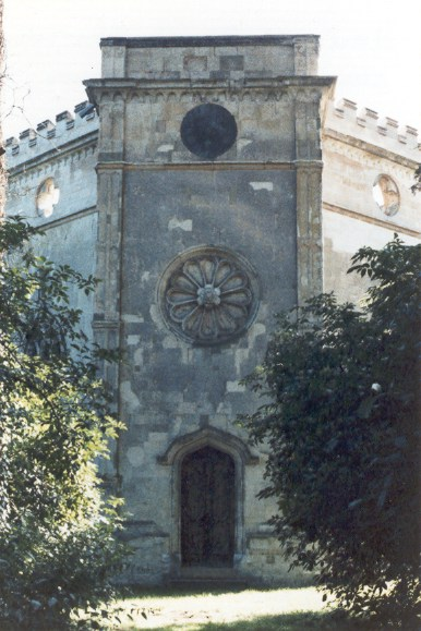 The Church of St Mary the Virgin, Hartwell House. This is the west door of this roofless 18th century church, set in trees on a slight rise facing the great mansion of Hartwell House, now a hotel Hartwell was a Domesday manor and, according to the list of Rectors, there has been a church here since at least the 13th century. This was the final resting place of the regicide "honest Dick" Ingoldsby of 53708 who died in 1685. His conspirators all lived nearby - Mayne of 889472 and the Serjeants of Aston Mullins SP7608. The story of these conspirators is at: . See also the Gallery at: There are/were also tablets to the memory of some of the Hampden family 890720 who were related to the Lees who owned Hartwell. The current church was expensively constructed in Gothic style in an octagonal shape with two towers. It had a roof "richly ornamented with tracery", but after the Second World War the lead from it was stolen, the roof fell in and the building is now a ruin. Some inscriptions can be seen above the north and south doors.